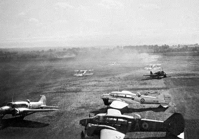 Wagga Wagga, NSW. c 1940-09. The airfield at No. 2 Service Flying Training School, RAAF Station Wagga, when the unit operated both CAC Wirraway and Avro Anson aircraft. Also shown are three DH-82 Tiger Moth aircraft.